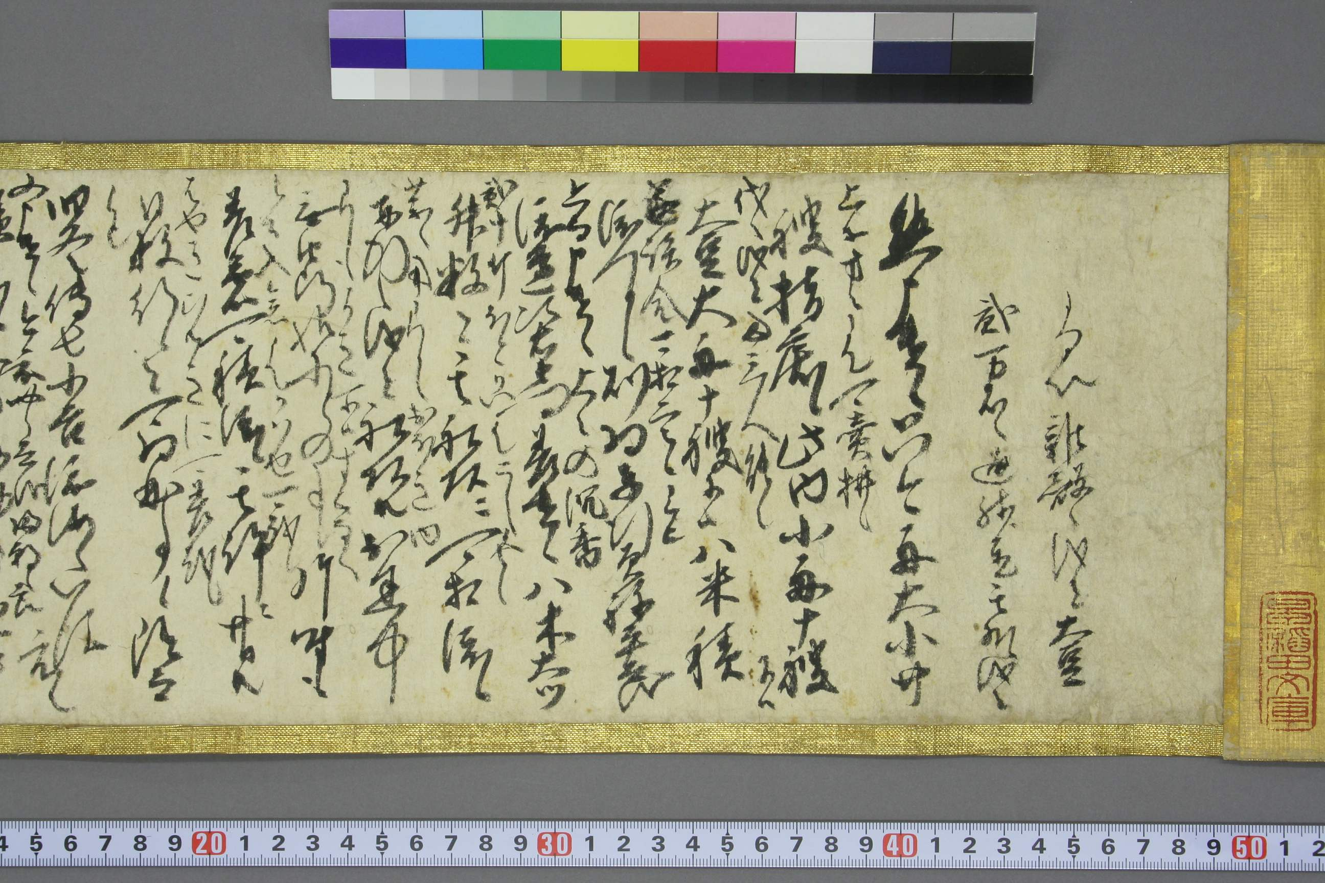 Kiyomasa's letter from Korea